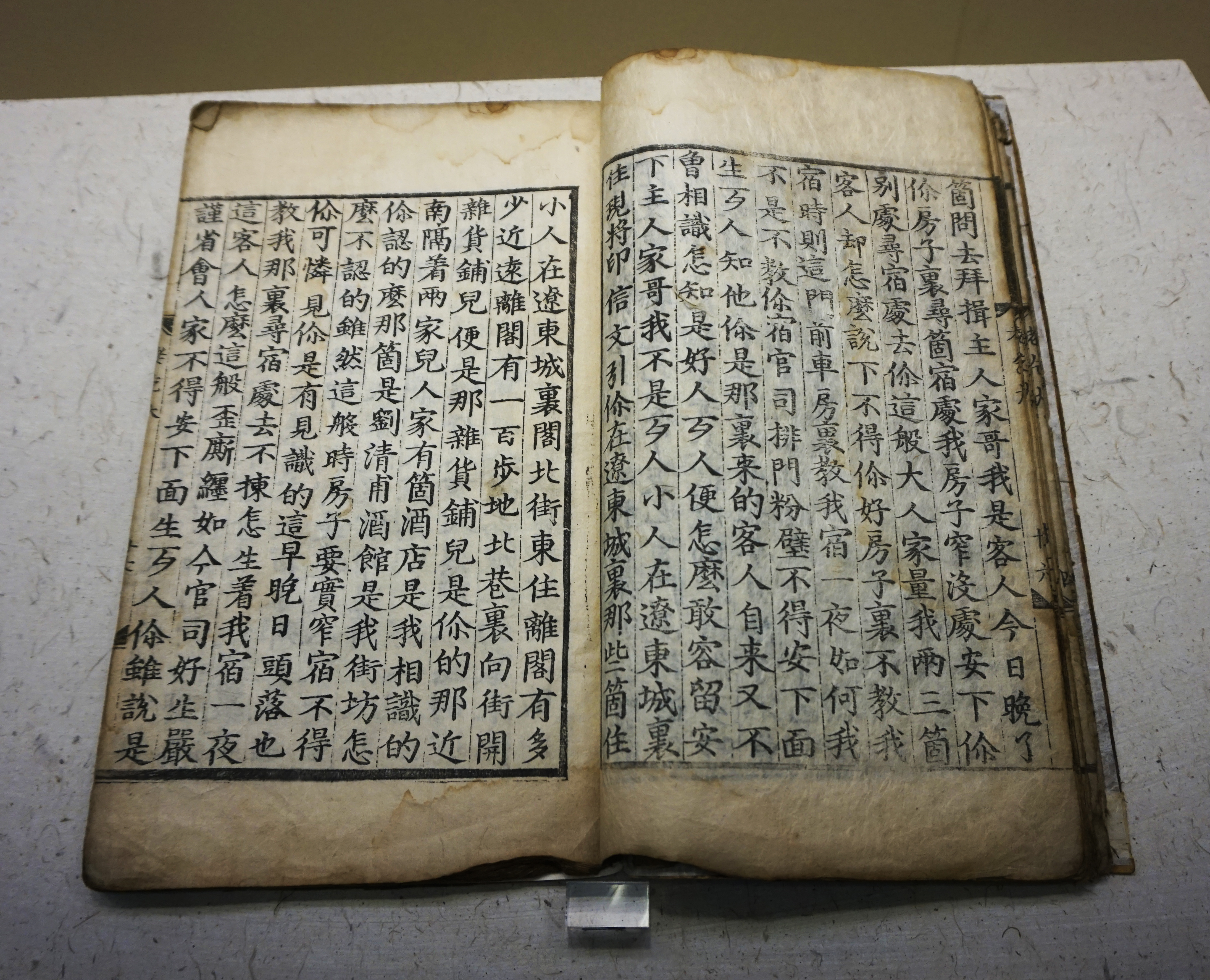 Nogeoldae. The "Old man". 16th century. National Museum of Korea.